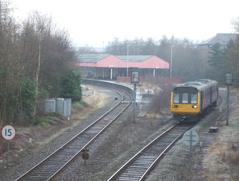 Oldham Mumps railway station, Greater ManchesterOpened in 1863 on the Lancashire & Yorkshire Railway's "Oldham Loop" line from Manchester to Rochdale, this station closed in 2009. It was replaced in 2013 by a Metrolink tram stop, closer to the camera. Compare with SD9304 : Oldham Mumps railway / Metrolink station, Greater Manchester. View north east towards Derker and Rochdale.